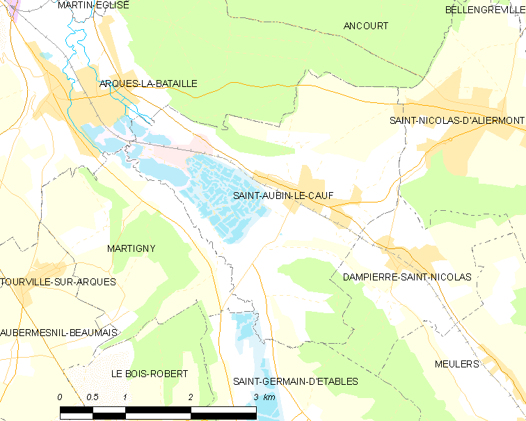 Map of French municipality Saint-Aubin-le-Cauf